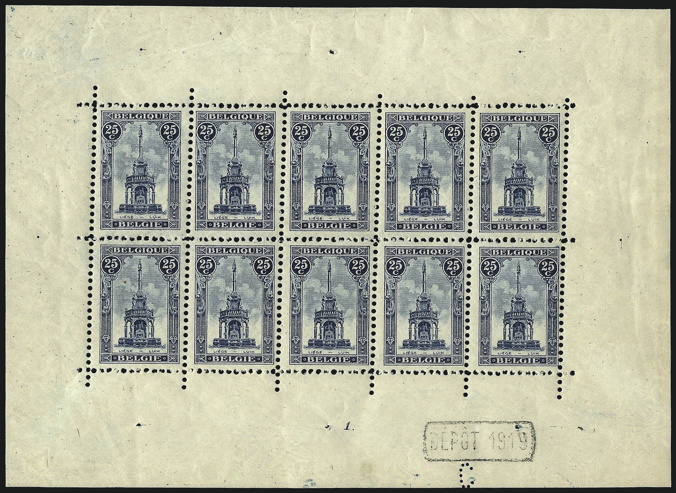 Belgium 1919 Mi 143 b minisheet ('Perron' at Liege (Fountain))